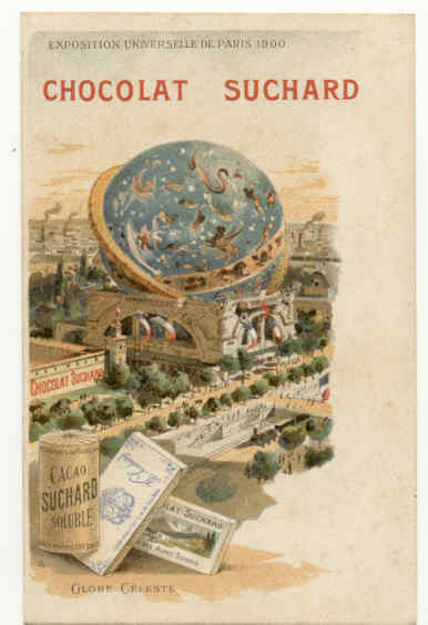 Postcard: SUCHARD: Paris Expo 1900 series - Globe Celeste. V sl foxing o/w BG - VG (Celestial Globe in the Exposition Universelle of 1900)